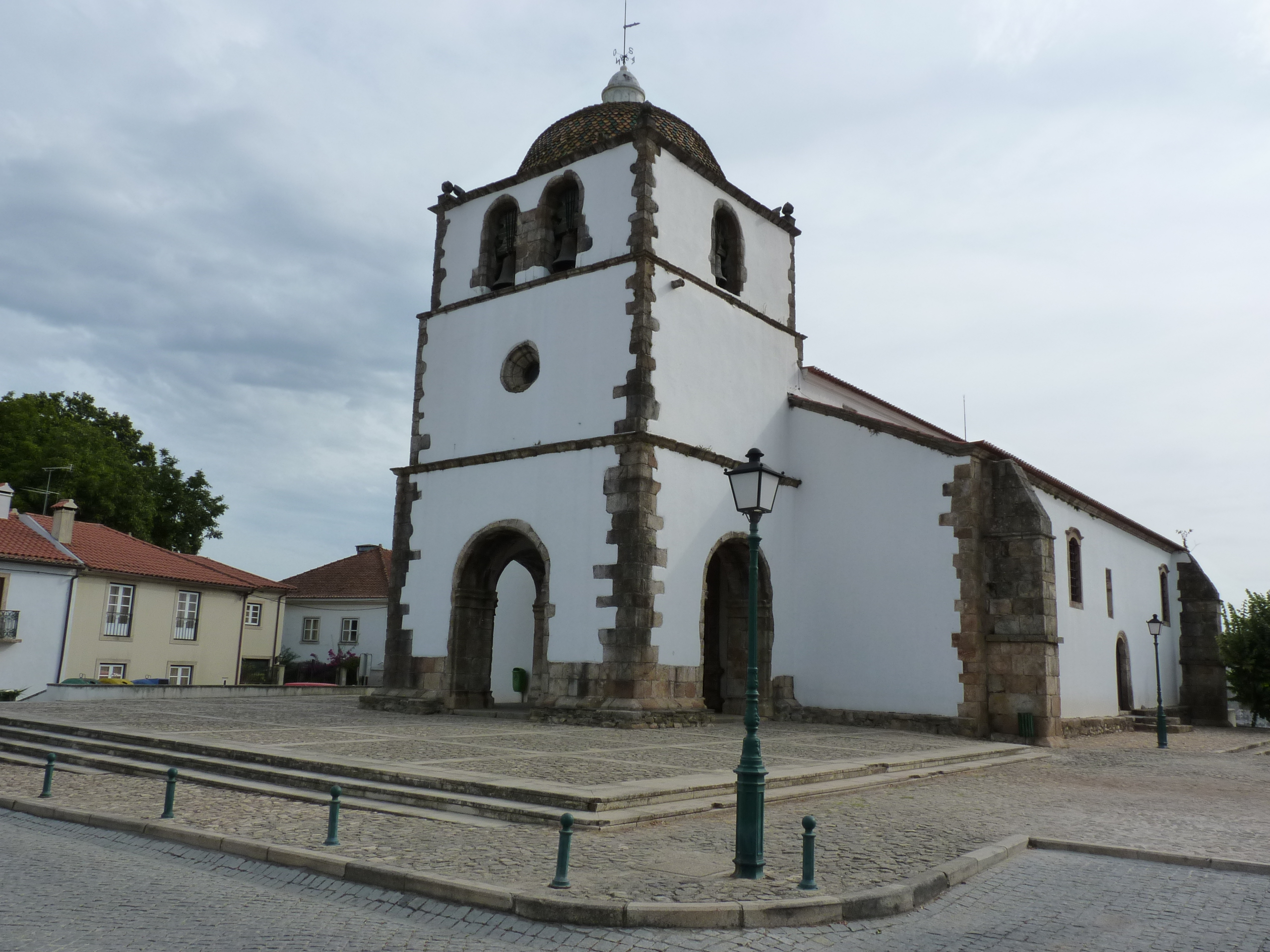 This file was uploaded for Wiki Loves Monuments in Portugal with the unique identifier 70370.